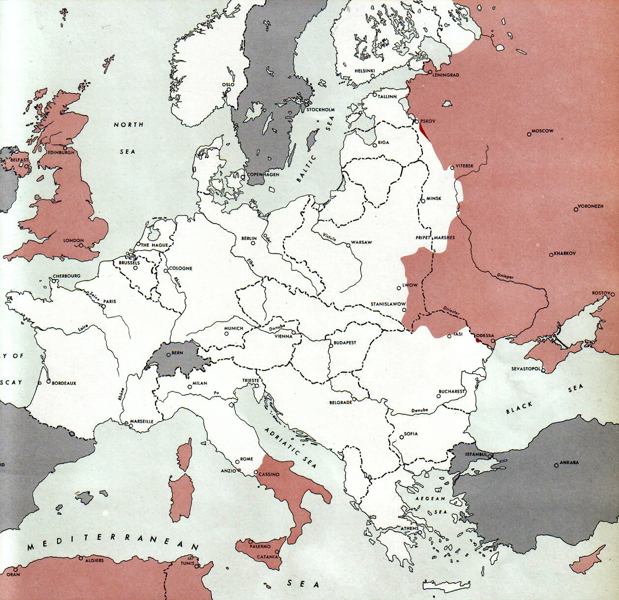 Map of the front against Germany: This map is taken from the source "Atlas of the World Battle Fronts in Semimonthly Phases to August 15th 1945: Supplement to The Biennial report of The Chief of Staff of the United States Army July 1, 1943 to June 30 1945 To the Secretary of War". (See Cover, Forward and Map details)